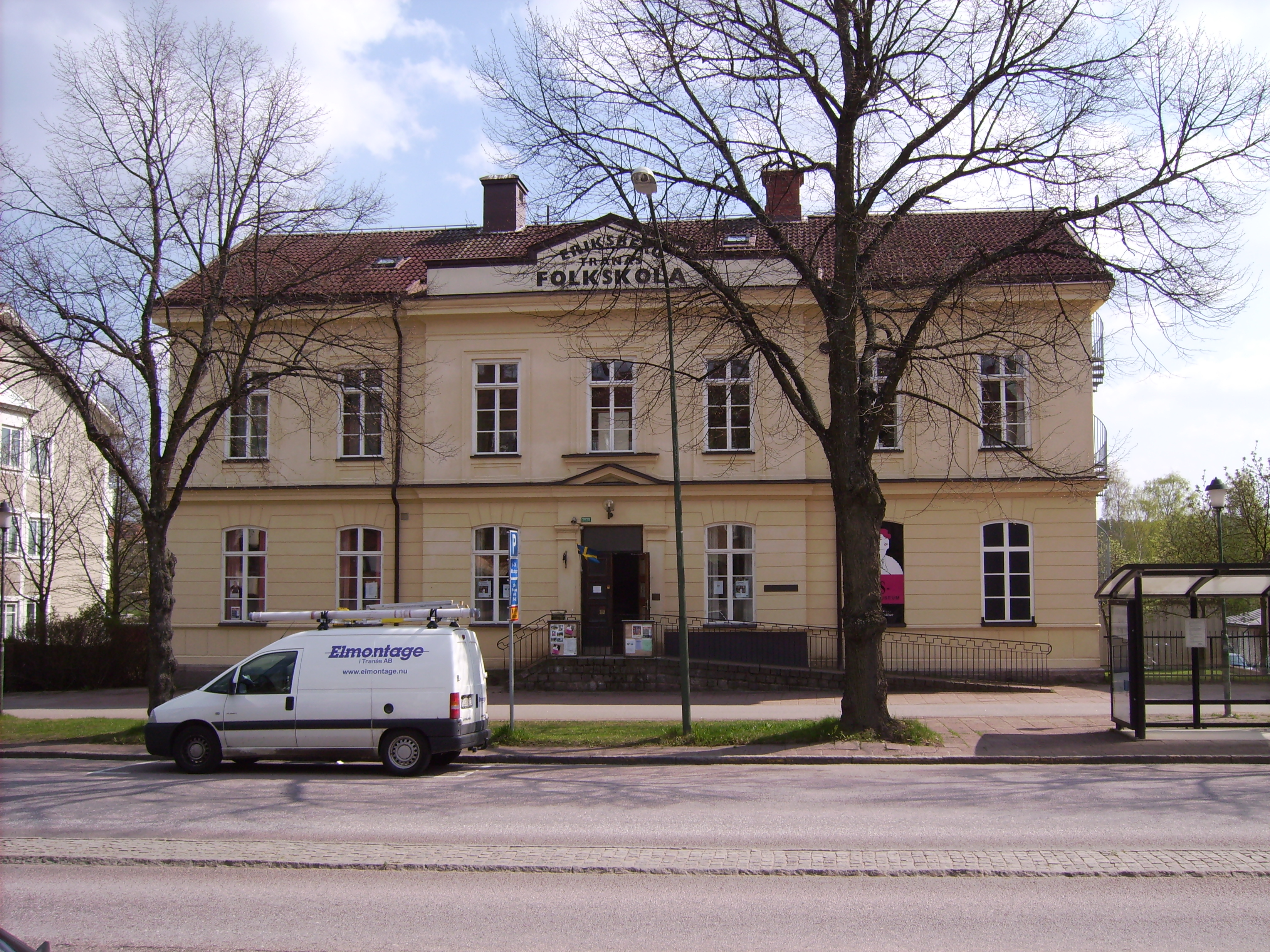 Photo by Harri Blomberg.